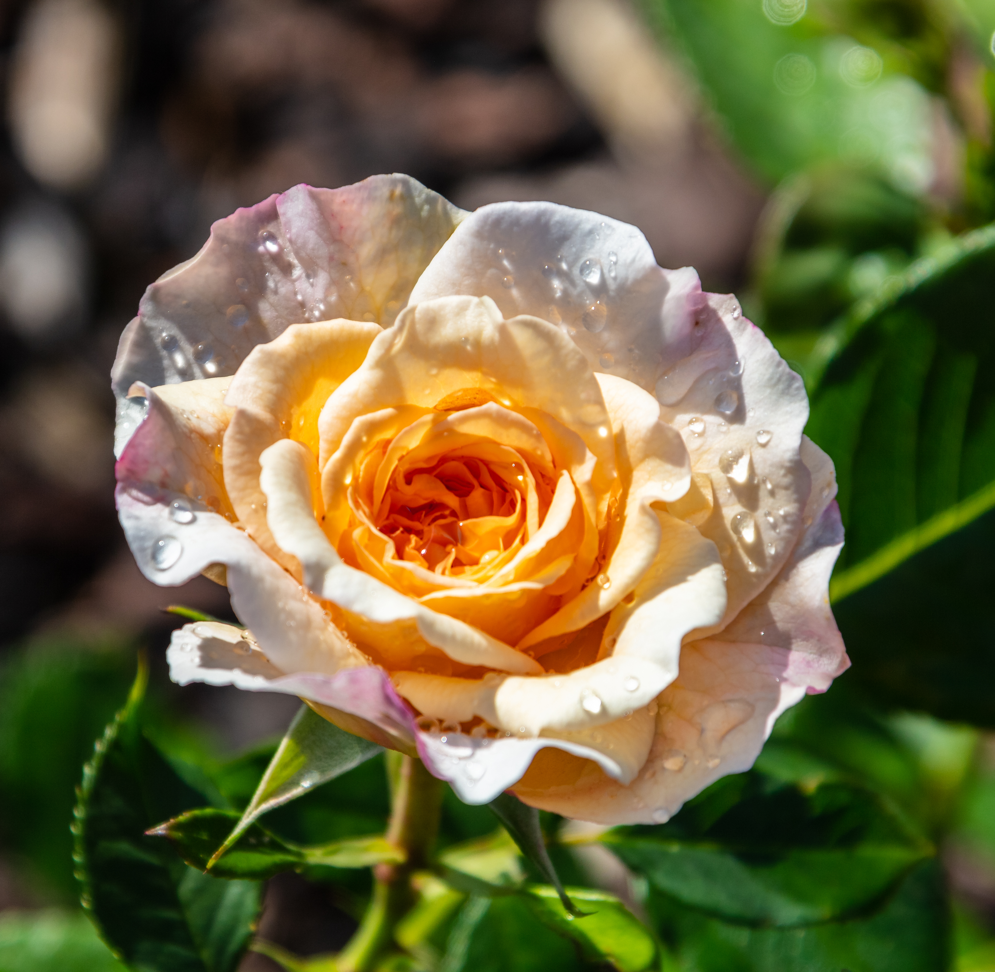 'Diana' Rose, Bad Wörishofen, Germany